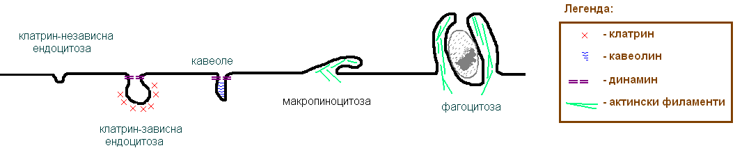 types of endocytosis, labels in serbian